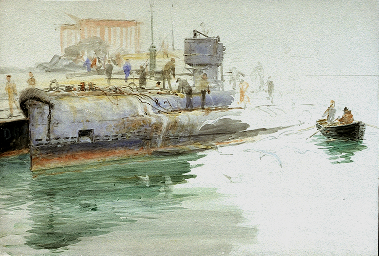 Study of a submarine at a quayside (unfinished) This unfinished drawing is a reasonably accurate image of a G-class submarine of which 14 were built (launched 1915-16,except 'G14' which was launched on 17 May 1917). Three boats were sunk during the war, one was wrecked soon after the armistice and the remaining ten were broken up. 'G1' to 'G6' were in the 11th Flotilla based at Blyth and 'G7' to 'G14' were in the 10th Flotilla based on the Tees. The location here is unidentifiable, with gas-lamp standards on the quay and a harbour rowing boat to the right.